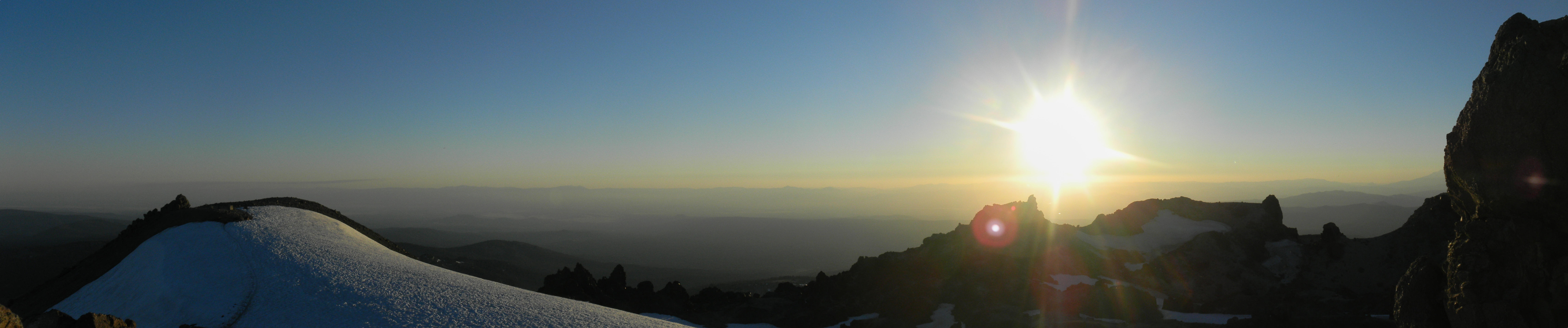 Sunset from the summit of Lassen Peak (approximately 9pm on July 7, 2012).